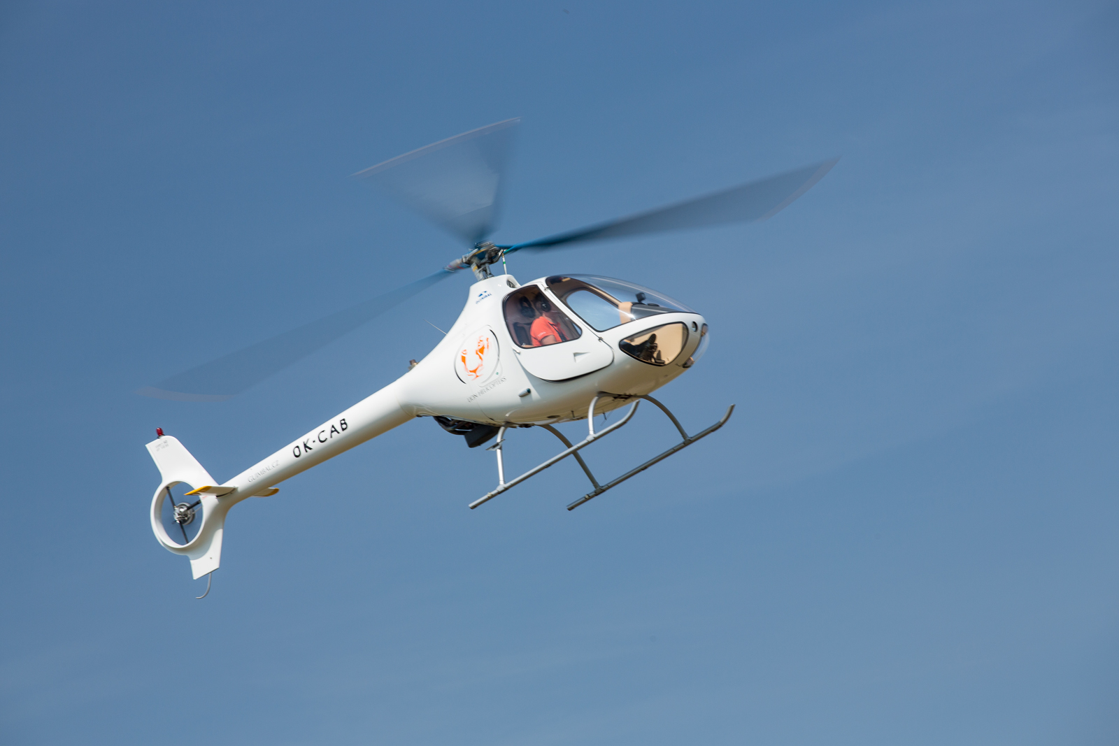 Guimbal Cabri G2 OK-CAB, Owner LION Helicopters s.r.o.